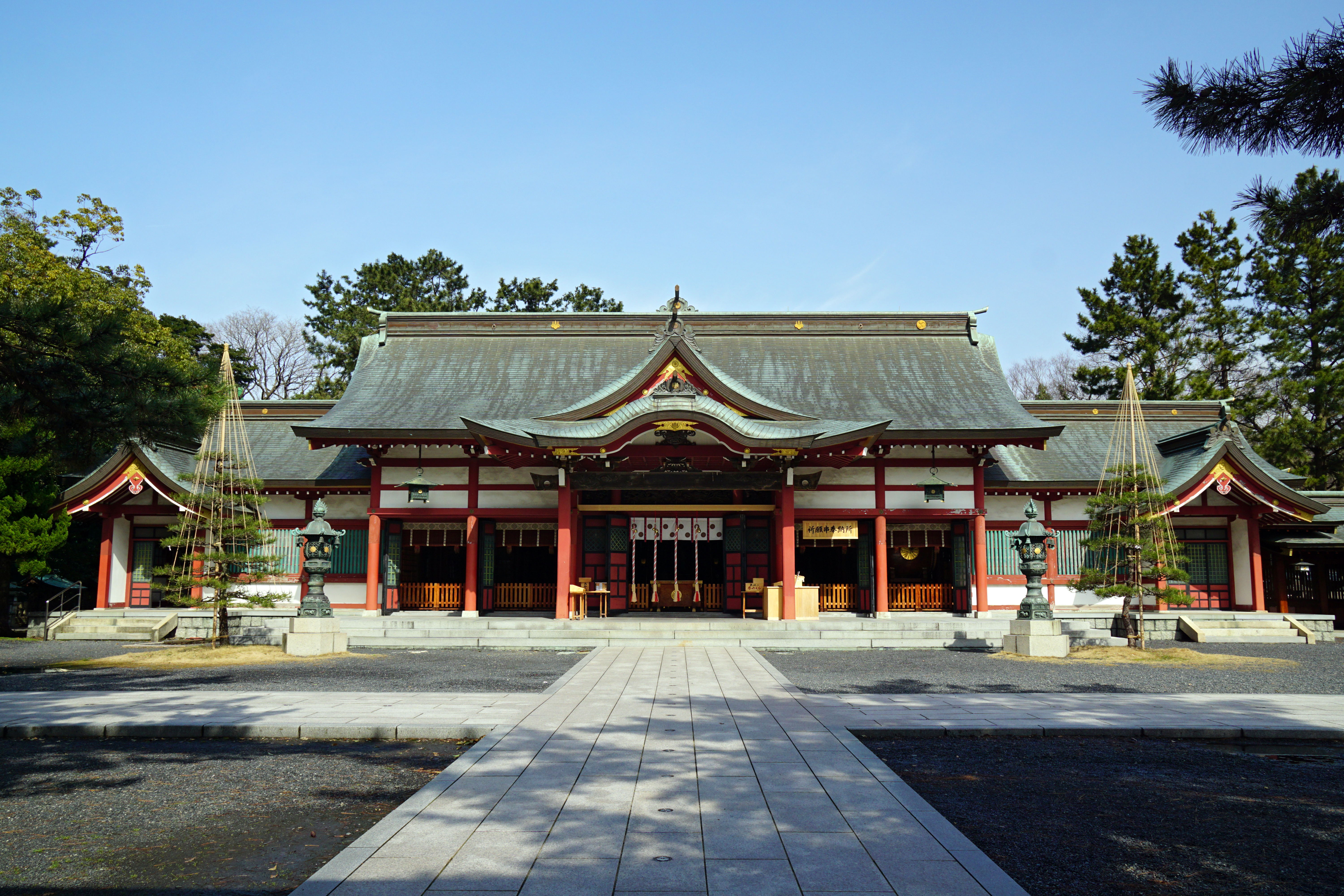 Kehi-jingu in Tsuruga, Fukui prefecture, Japan.